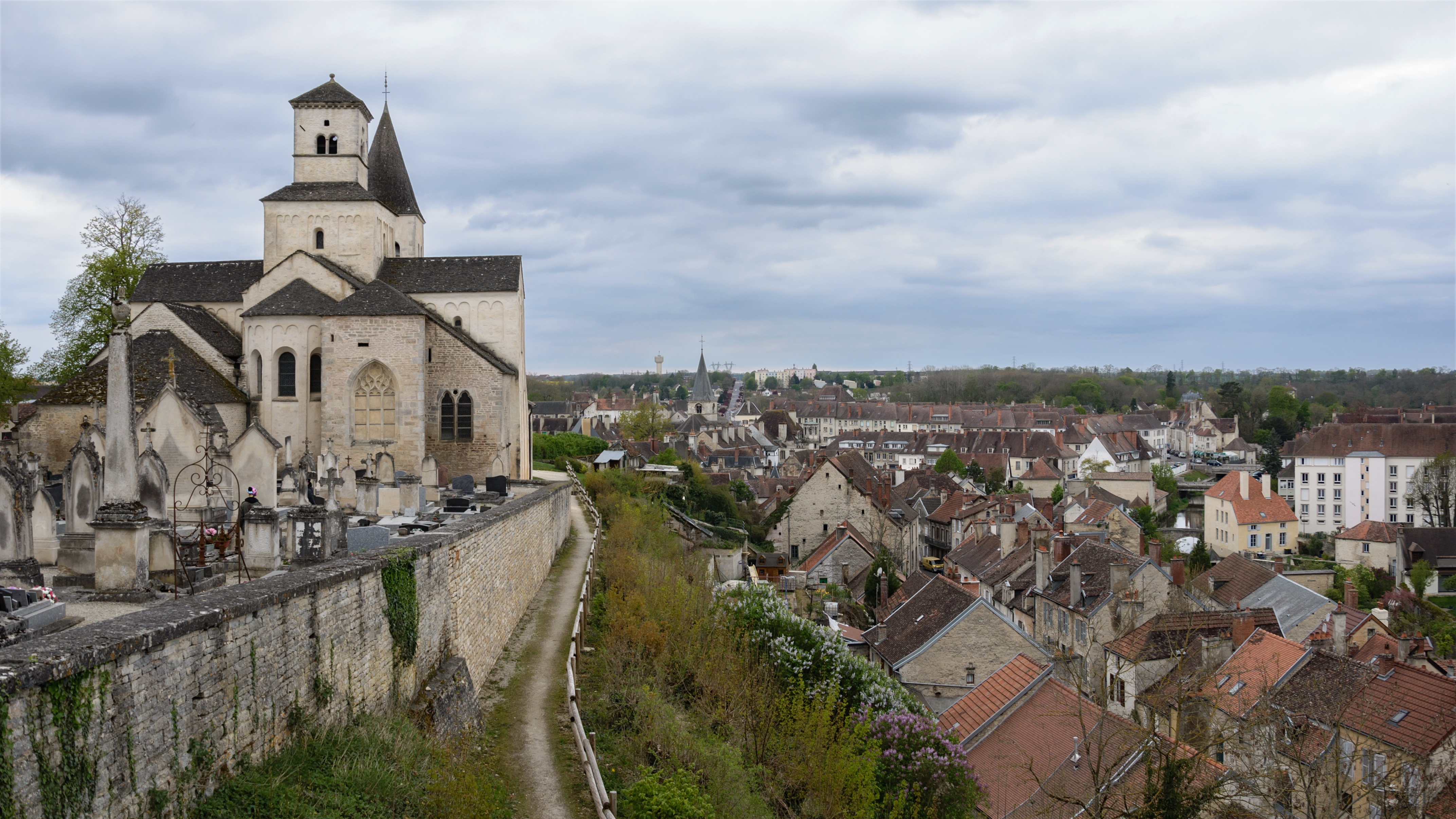 St. Vorles Church overlooking the town of Châtillon-sur-Seine, Côte-d'Or department, Burgundy, France.